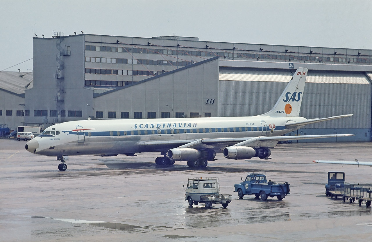 Scanair Douglas DC-8-33